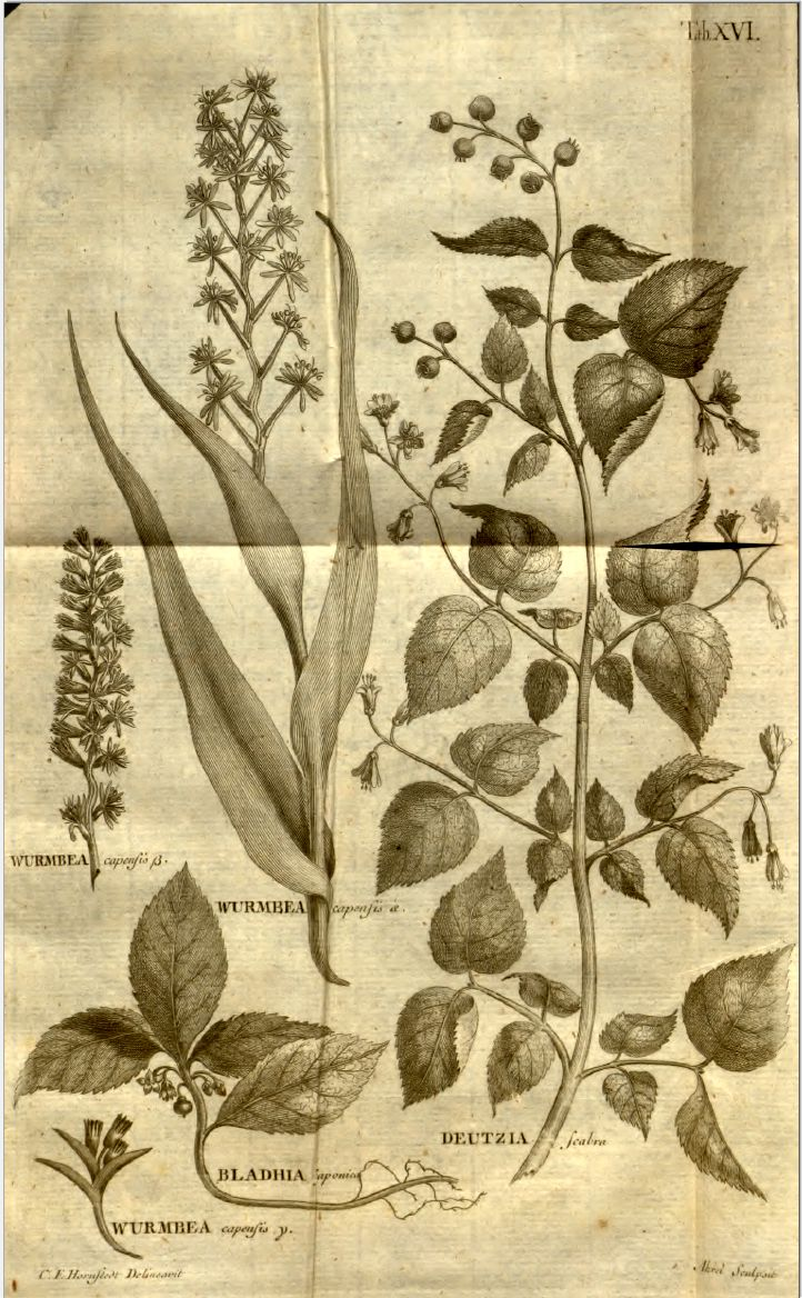 Tab XVI from "Nova genera plantarum" showing Wurmbea capensis Thunb., Bladhia japonica Thunb. a synonym of Ardisia japonica (Thunb.) Blume, and Deutzia scabra Thunb.